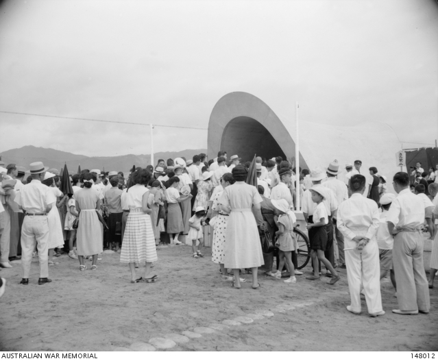 During the Hiroshima Peace Festival guest speakers read messages to the Japanese people who had lost relatives and friends in the atomic bombing of Hiroshima. Members of the audience crowd around the Memorial Monument where the dead are enshrined.